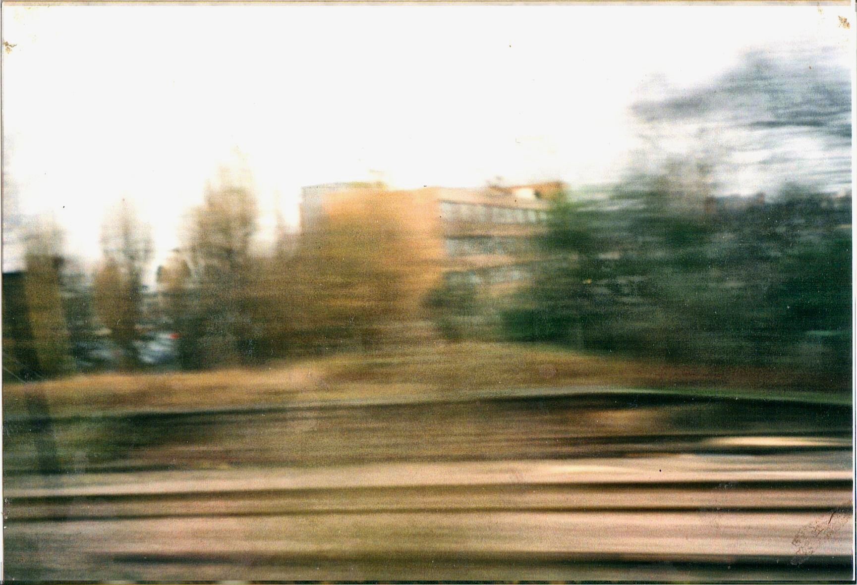 The old GWR era Greenford station in 2001 shot from a pssing train. The forecourt of the surviving platform and part of the platform its self are now built upon by a 1990's business park.